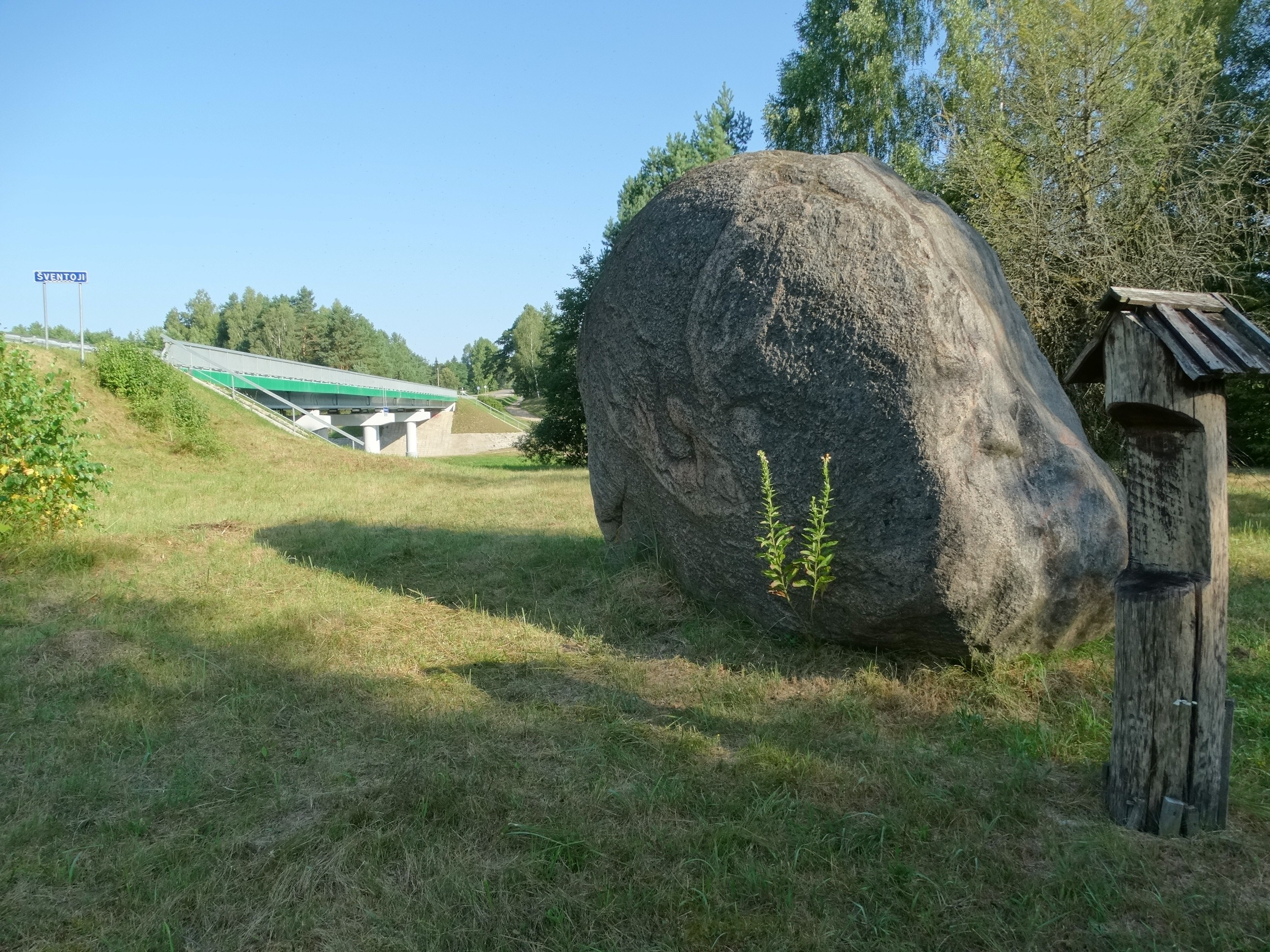 Juozapava Stone by Vepriai, Ukmergė district, Lithuania